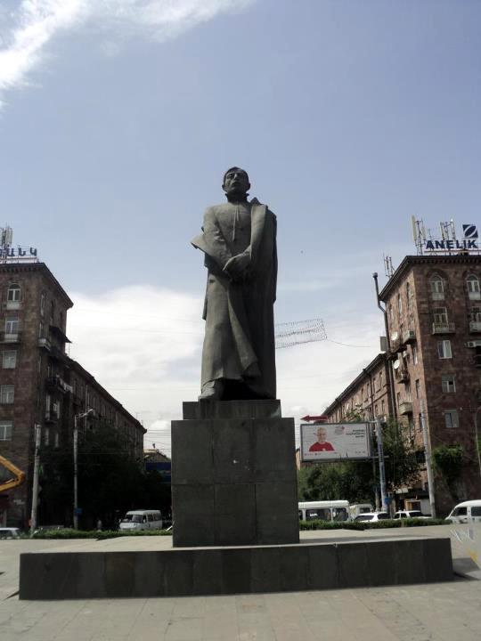 Սուրեն Սպանդարյան - բրոնզ, հեղինակ`Թոմ Գևորգյանն , ճարտարապետներ`Լ, Գևորգյան, Գ, Հարությունյան և Վ, Գևորգյան։ Տեղադրվել է 1990 թվականին Սպանդարյան հրապարակում (այժմ Գարեգին Նժդեհի հրապարակ)։